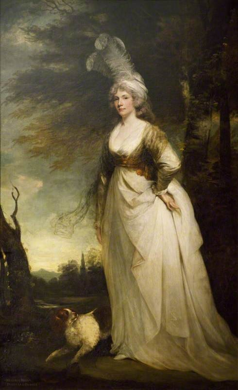 Portrait of Arabella Diana Cope (1767-1825), Duchess of Dorset